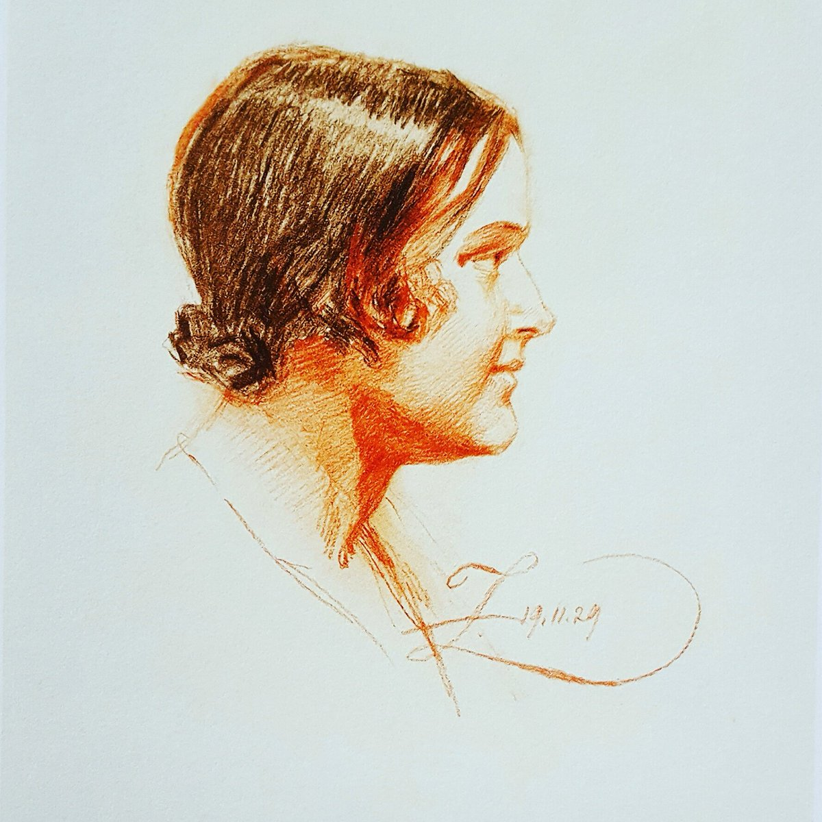 Zelma Brauere (1900-1977), the person depicted on Latvian coins of 5 Lats (1929-1932) and 1 or 2 Euro (since 2014), as portrayed by Rihards Zariņš on November 11th, 1929